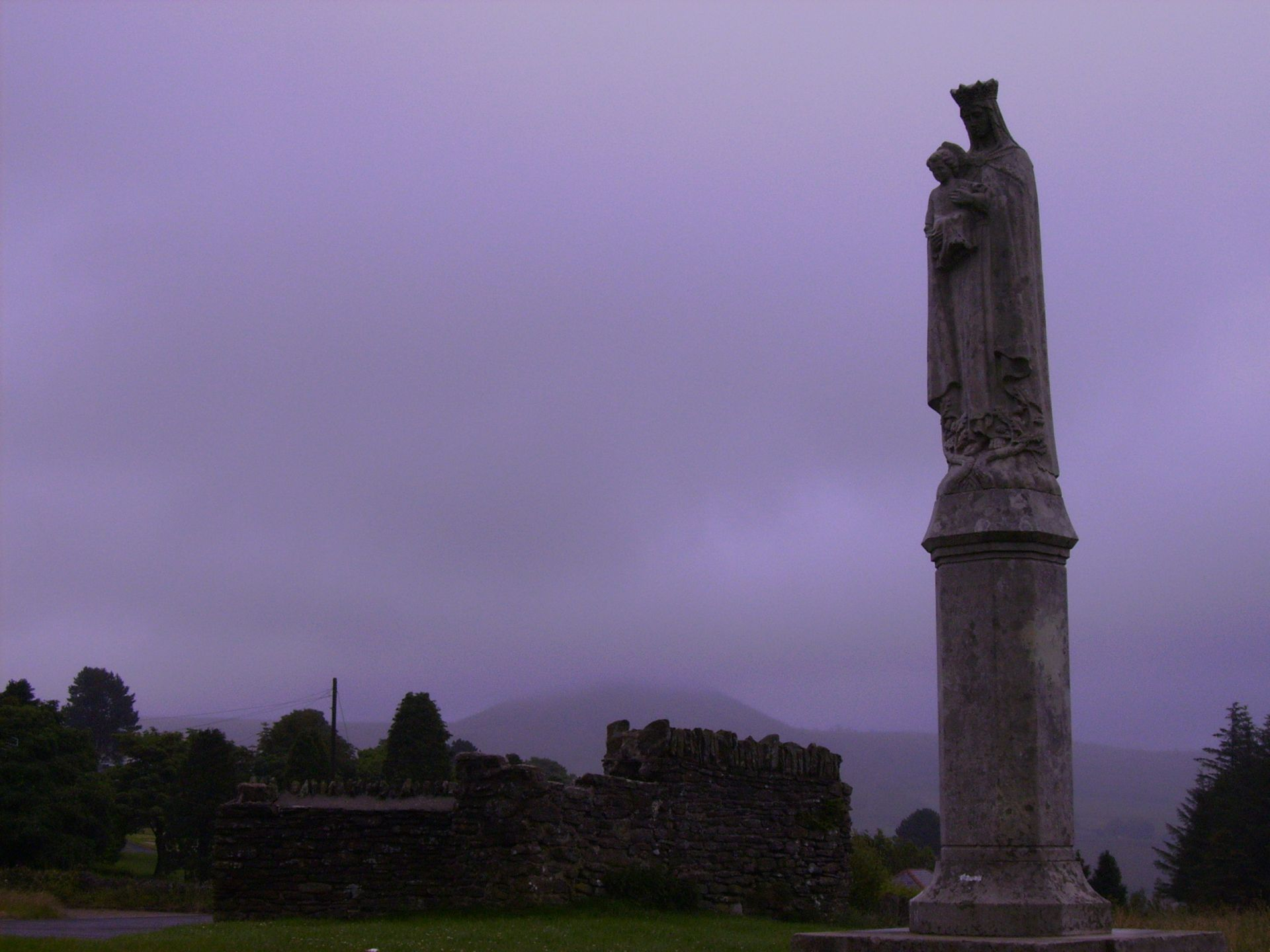 Marian shrine to Our Lady, Saint Mary, Penrhys, Rhondda, South Wales